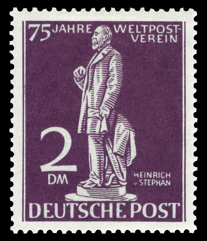 75 Jahe Weltpostverein (UPU)